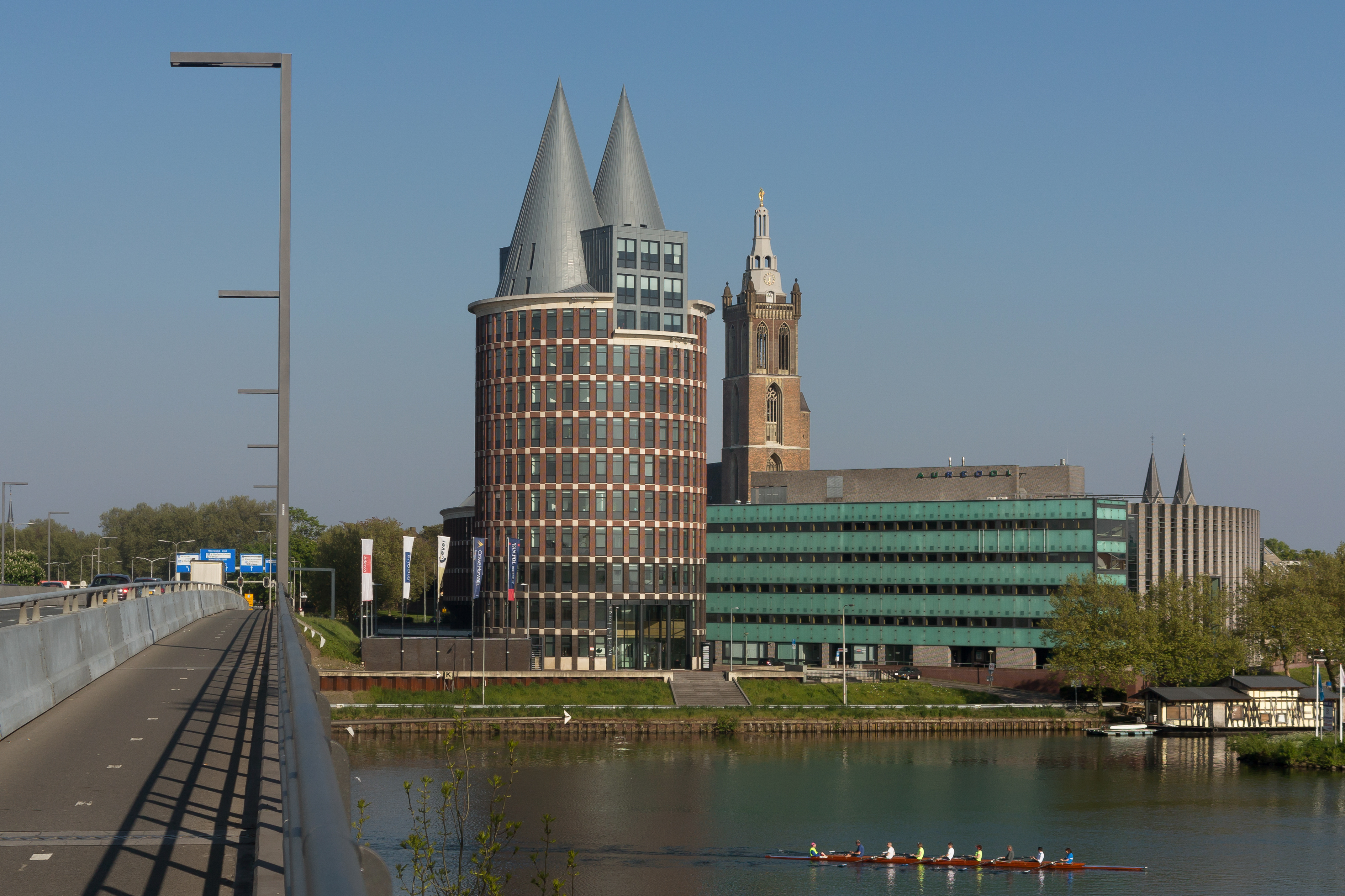 Roermond, modern tower (de Natalinitoren) and basilica (de Sint-Christoffelkathedraal